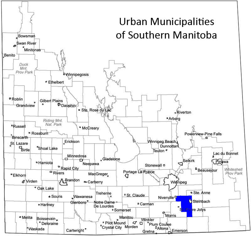 This is a recreation of all the rural municipalities of southern Manitoba, I have highlighted the RM of Hanover for this pic.